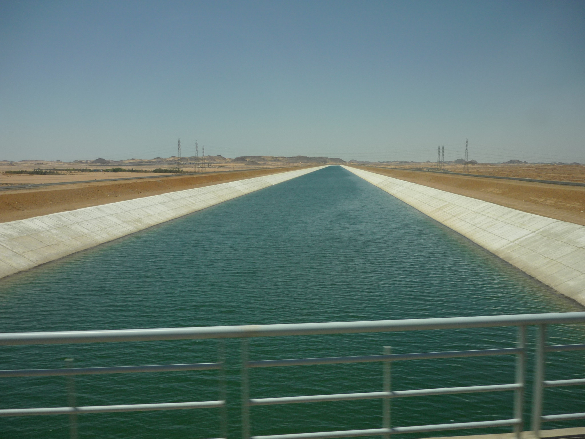 Sheikh Zayed canal of New Valley project, Libyan desert, Egypt